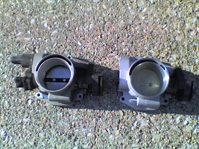 Chrysler PowerTech V6 Throttle Bodies: Stock vs Fastman